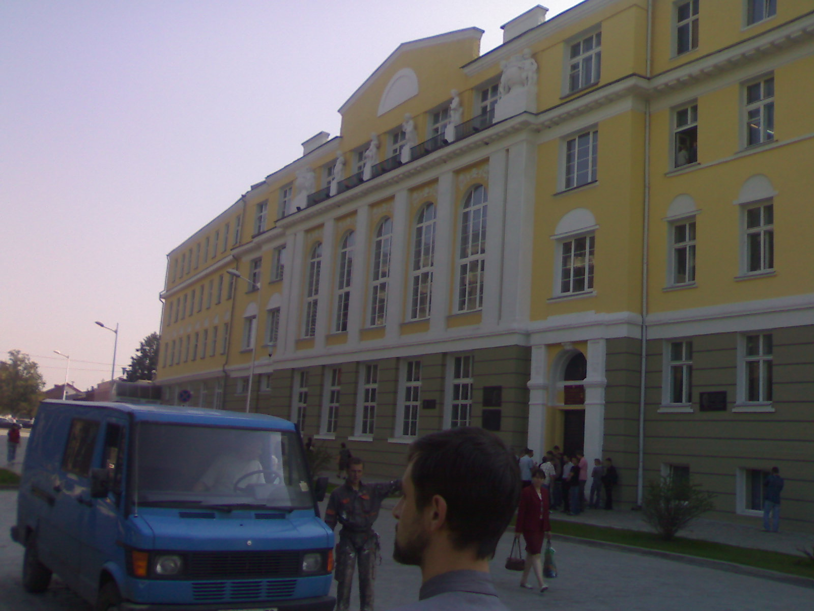 One of the houses of Kaliningrad Technical university, 2006